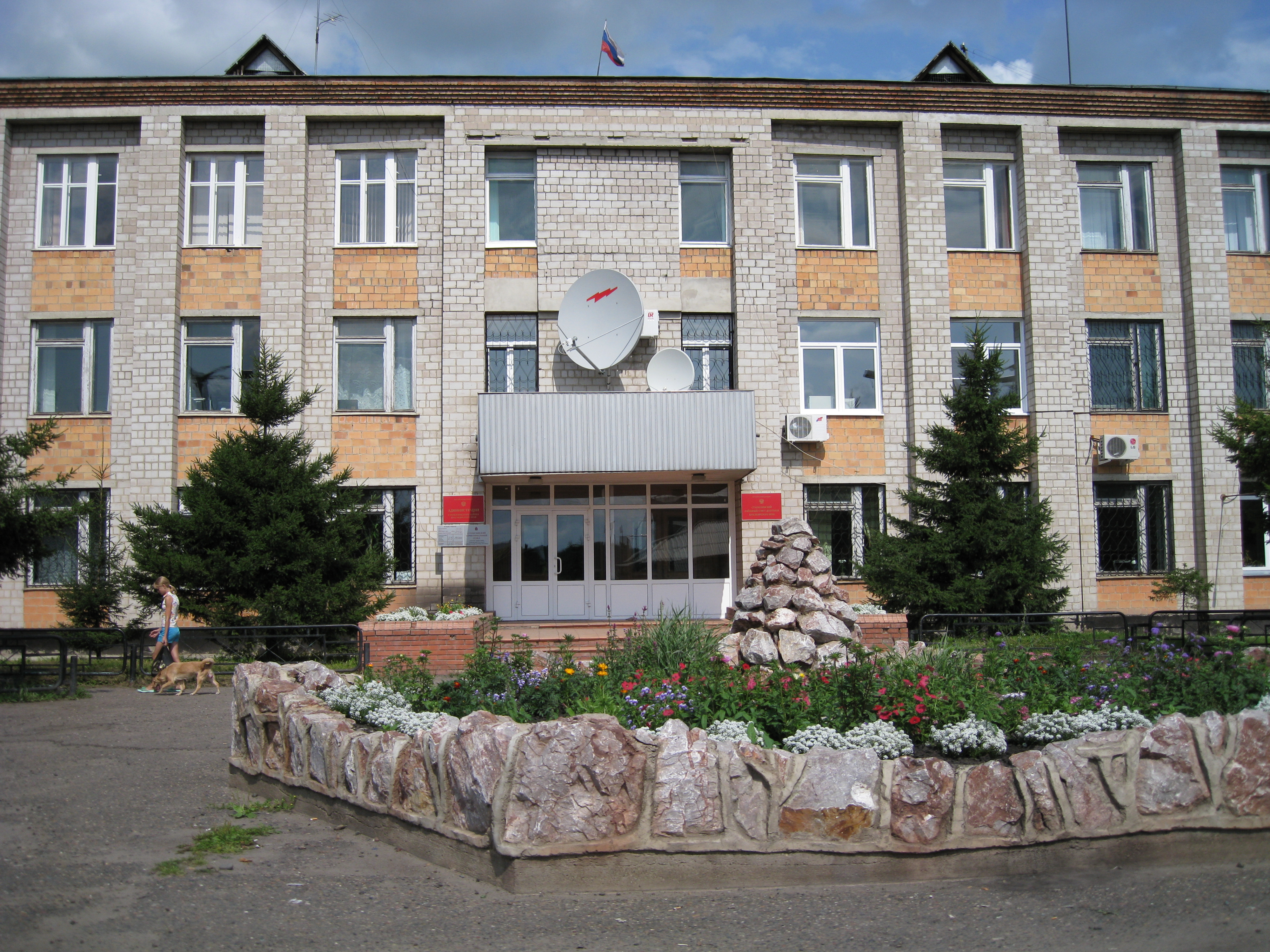 Building of Admistration of Sukhobuzimsky district.jpg